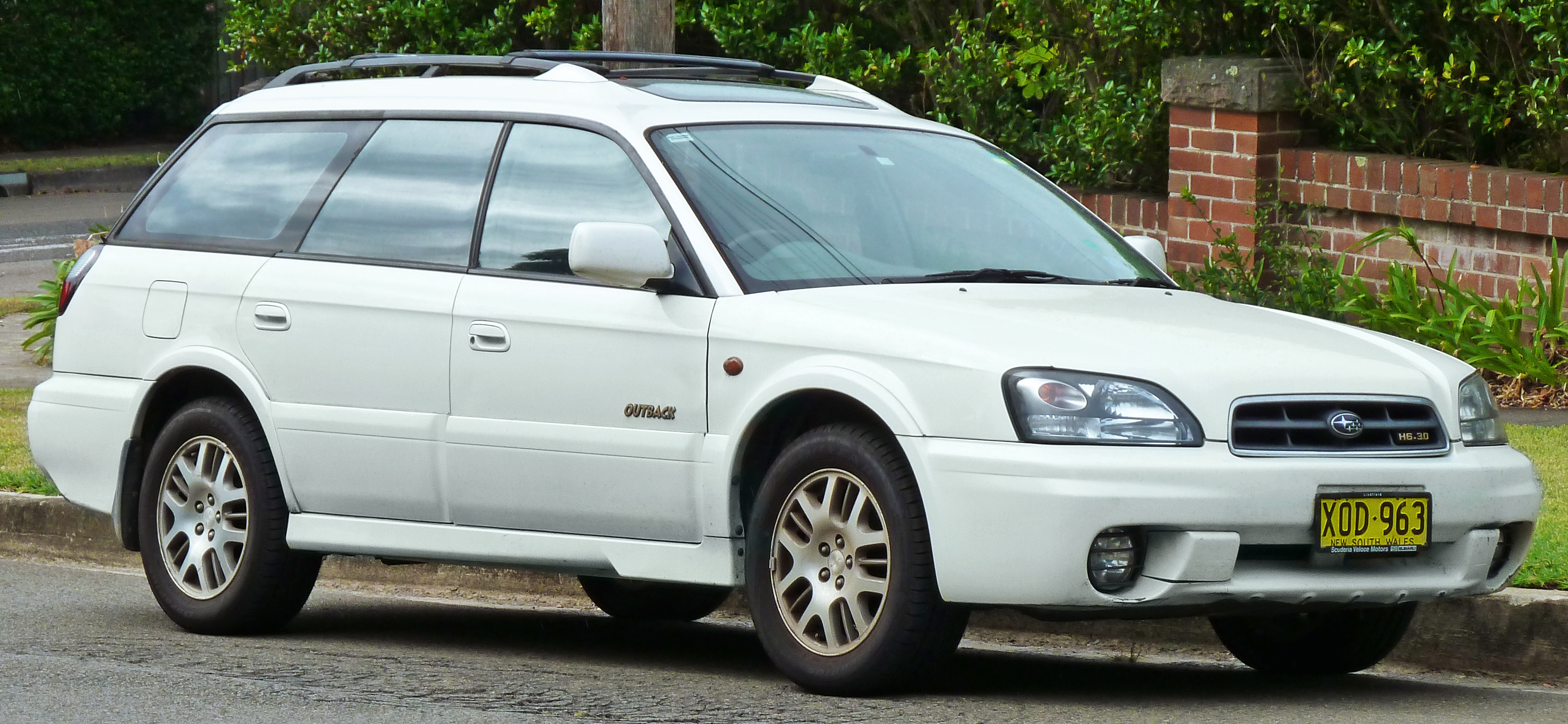 2001 Subaru Outback (BHE MY02) H6 station wagon. Photographed in Lindfield, New South Wales, Australia.